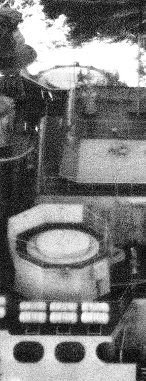 Two pop-up (lowered) Osa-M (SA-N-4) surface-to-air missile (SAM) launchers.